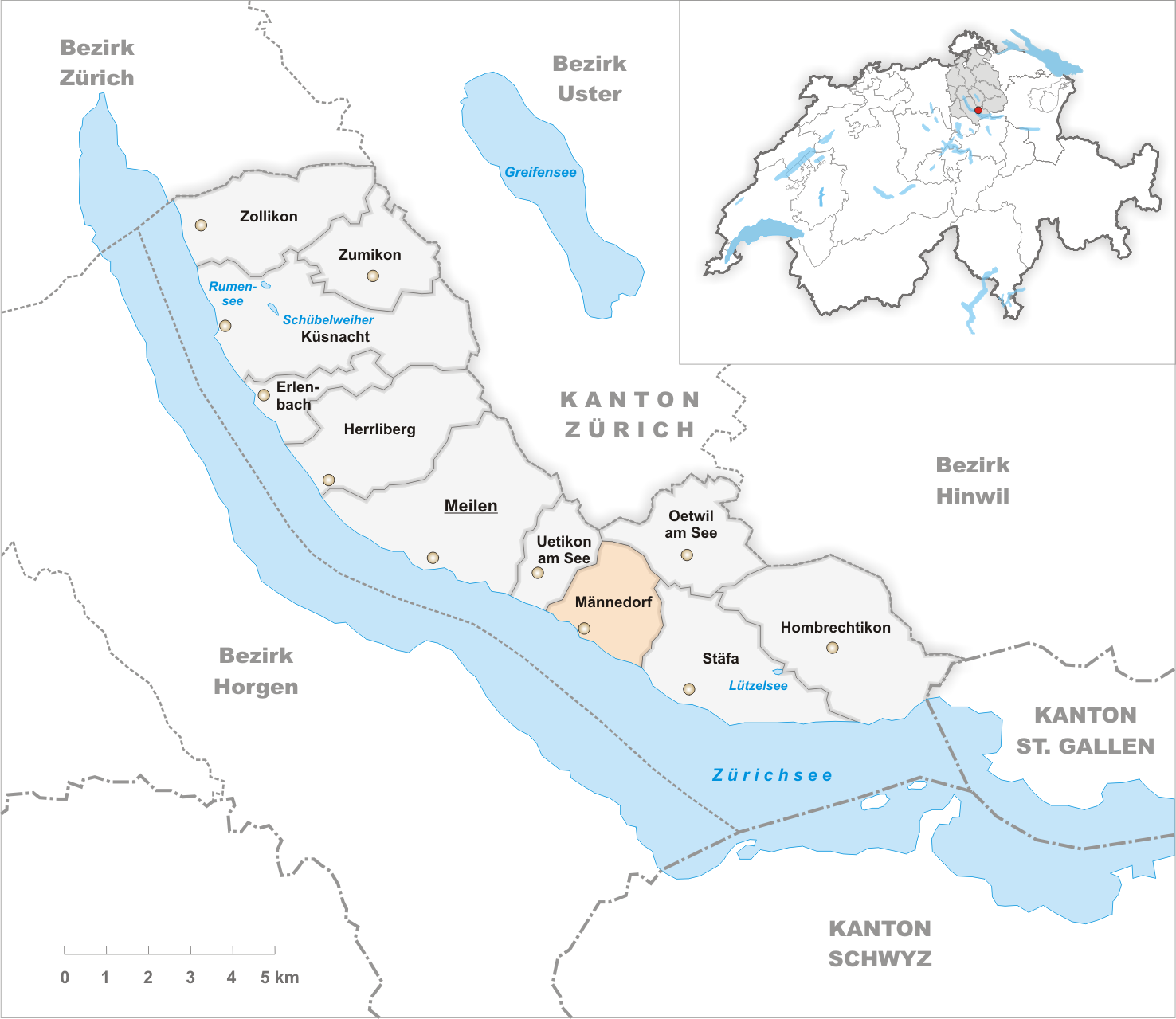 Municipality Männedorf